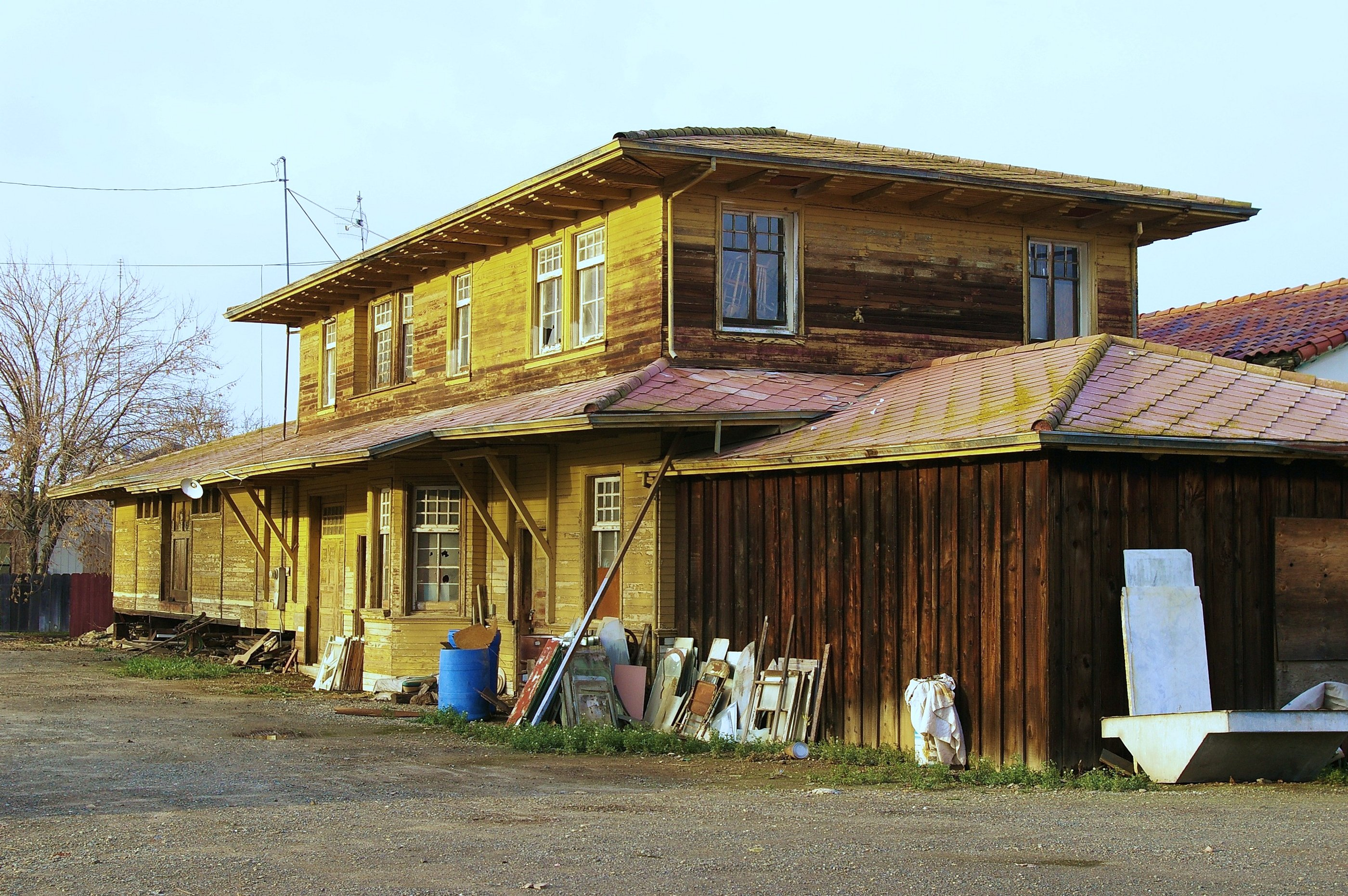 The former Le Grand station building in January 2008